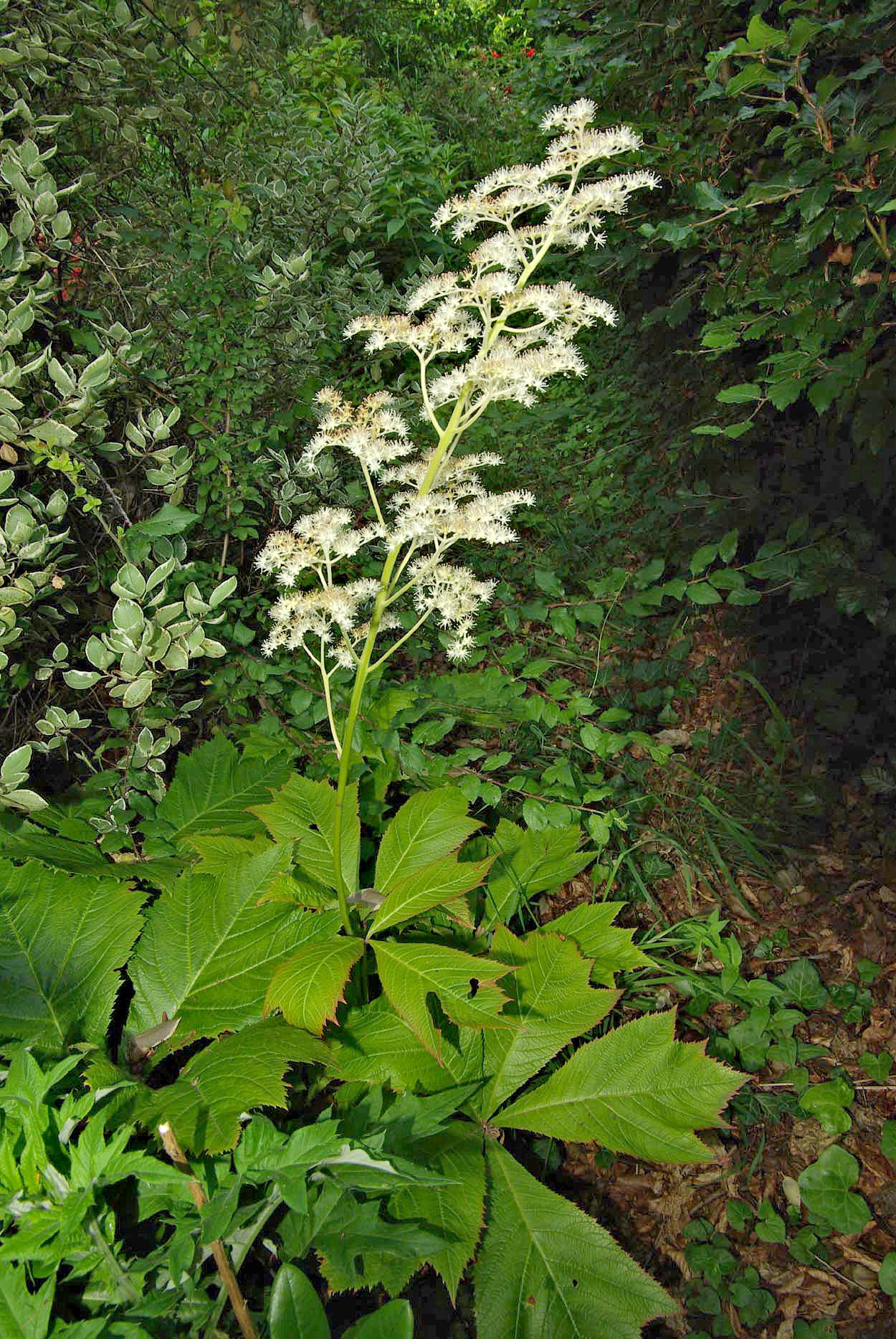 Rodgersia podophylla growing in Wales.